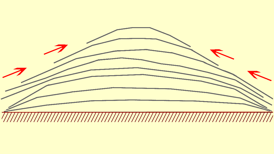 Own schematic reconstruction based on physically observed cut in two mound near Stanišič in Serbia Srpski (latinica): Šematska rekonstrukcija verovatnog načina gradnje humke (nanošenje zemlje u slojevima) zasnovano na ličnom posmatranju presečene humke kod Stanišića